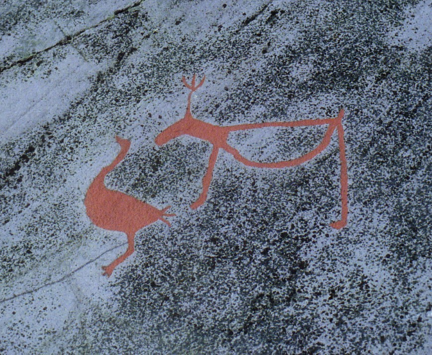 Rock carving at the site of Alta Museum in Alta, North Norway